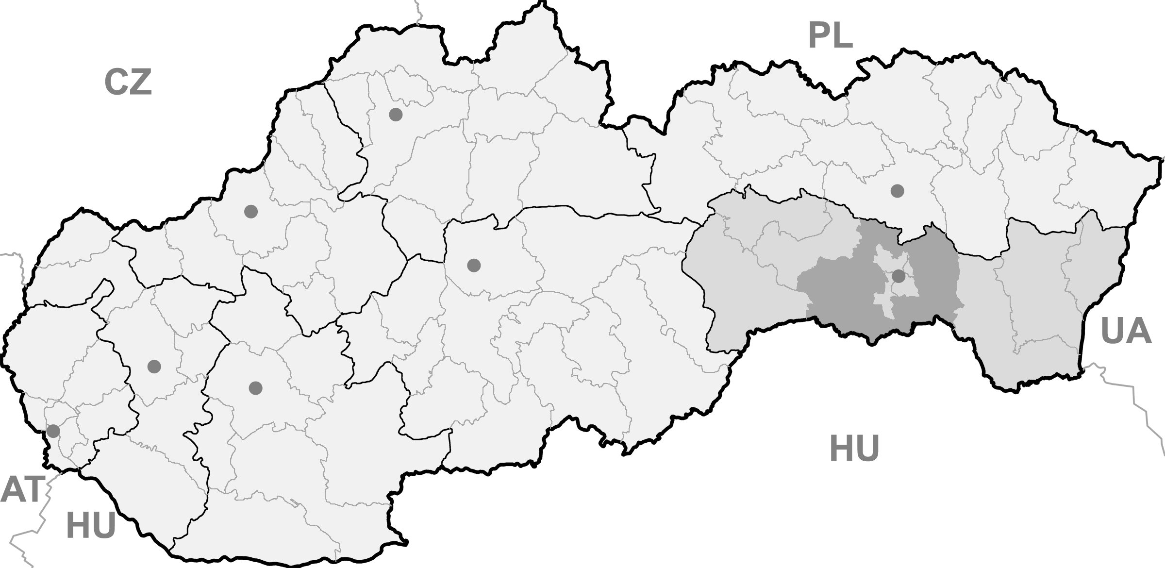 Map of Slovakia, Kosice-okolie district and Kosice region highlighted